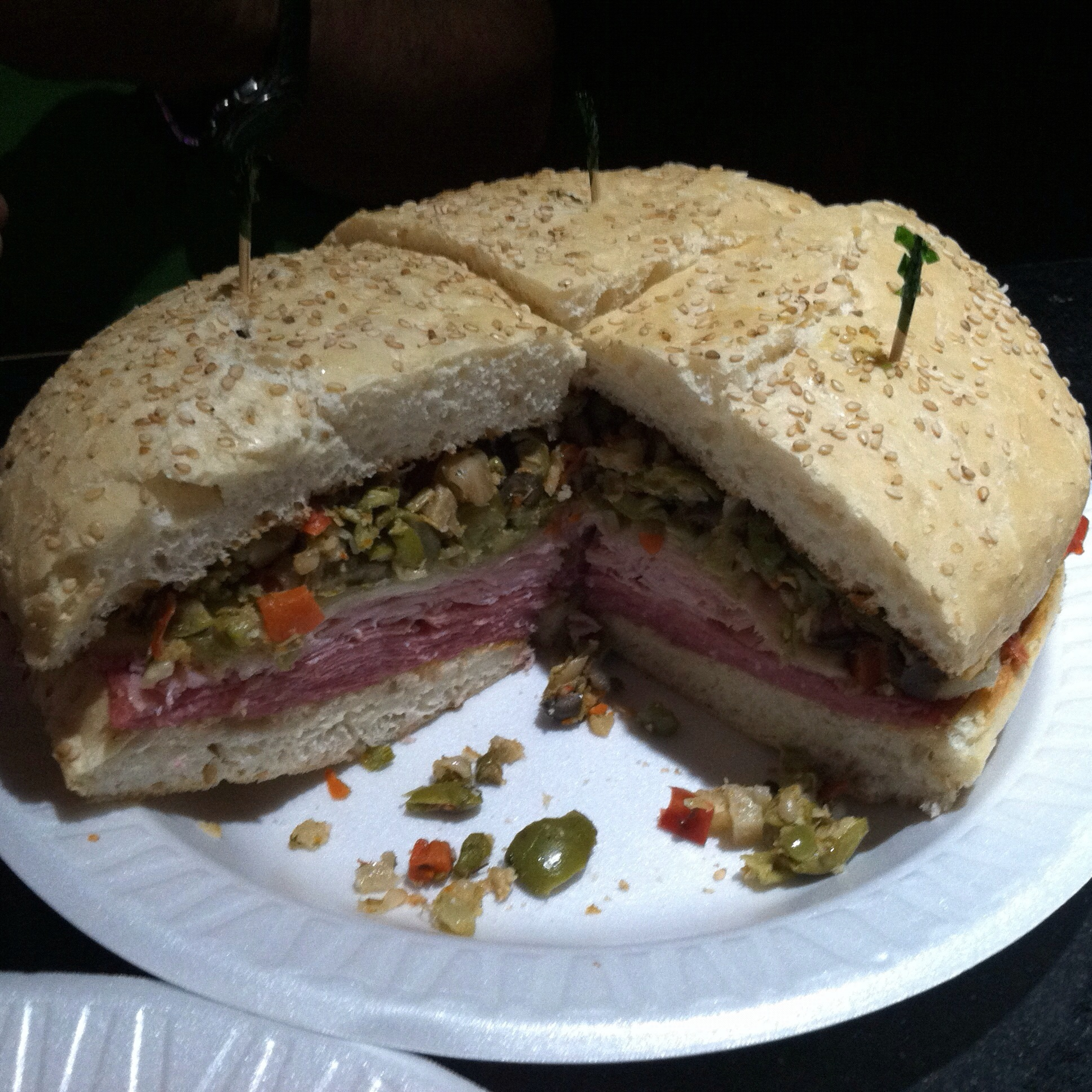 Muffuletta sandwich, New Orleans